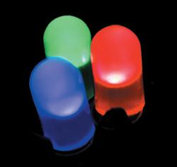 RGB LEDs